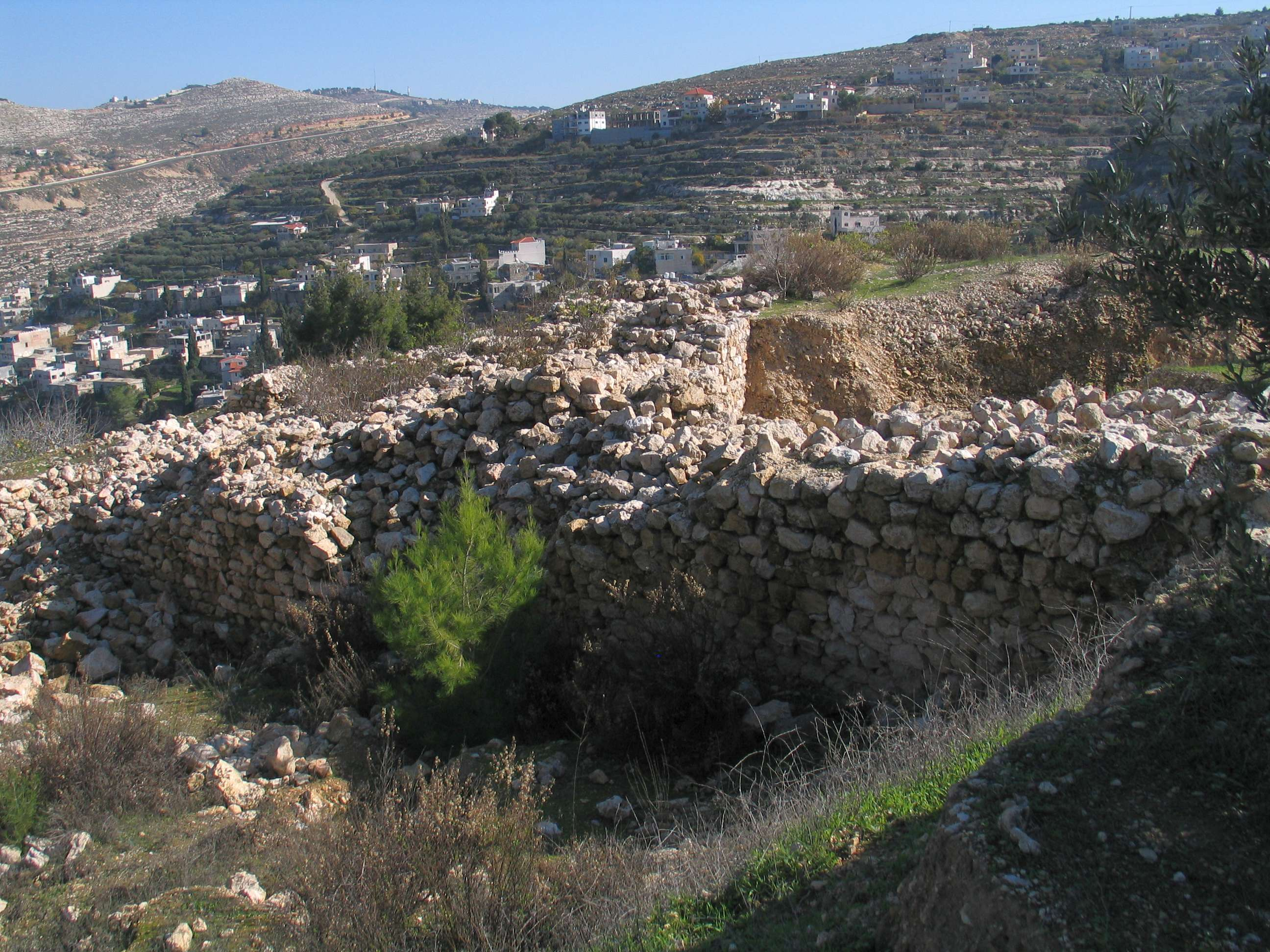 Khirbat el-yahud (ancient Beitar) near Batir.